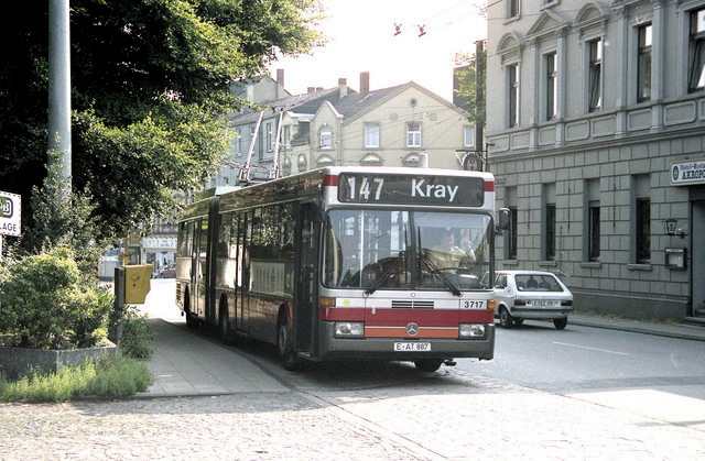 Duobus outside Kray Nord Bahnhof (in Essen, Germany), running in trolley mode.